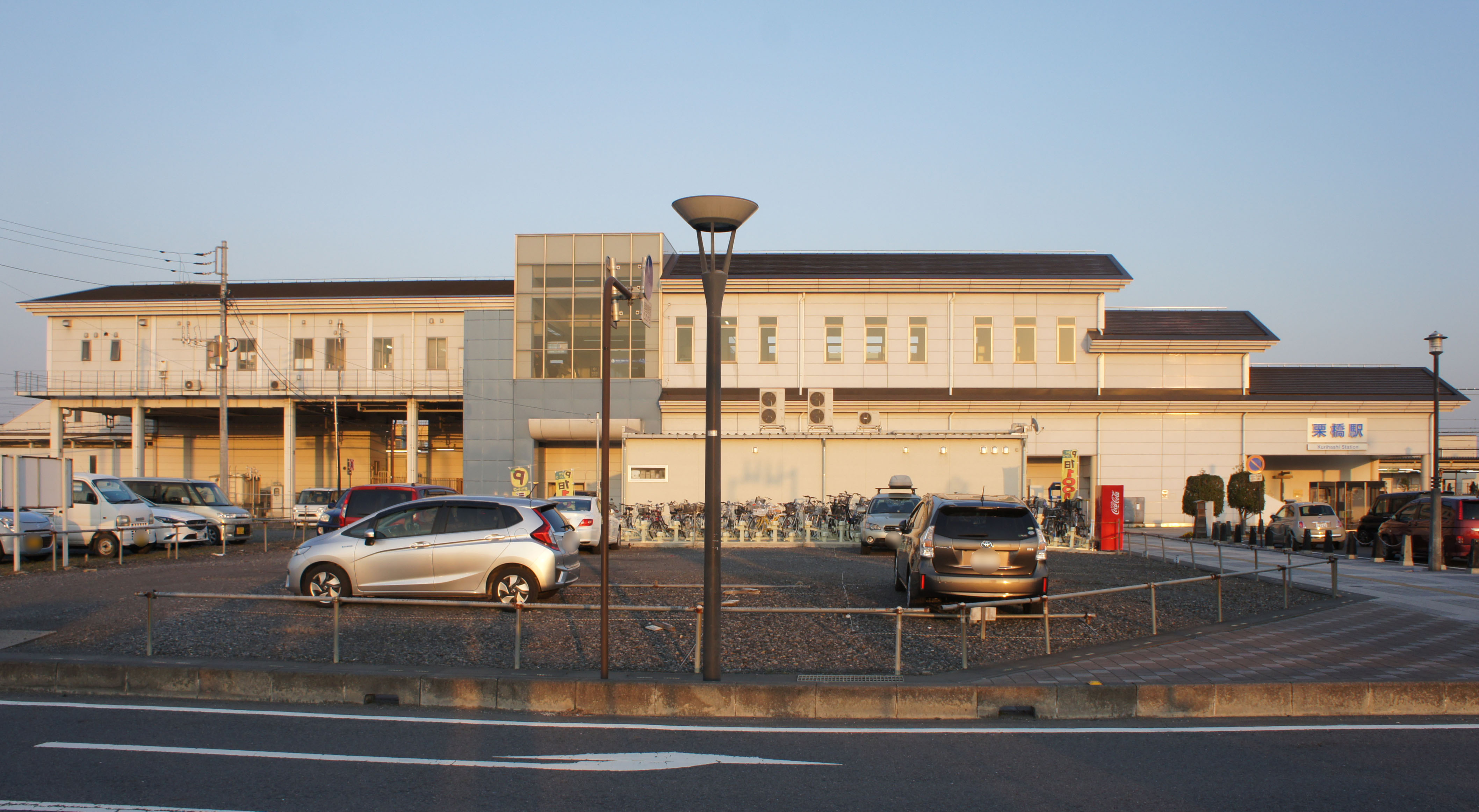 West Exit of JR Tohoku-Main-Line (Utsunomiya-Line) Kurihashi Station Sony NEX-3